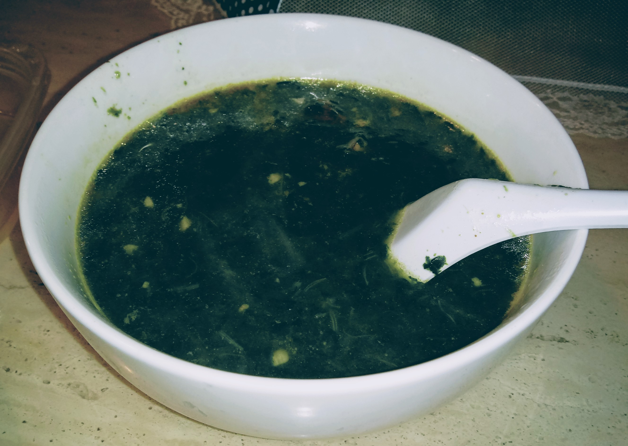 A bowl of Patriotic Soup, served to Emperor Bing in a Buddhist monastery at Chaoshan region during the final year of China's Song dynasty centuries ago around 1278, when he, his family, and Song court and military members were fleeing from the Mongols. Its main ingredients are leaf vegetable (spinach), edible mushrooms, and vegetable broth. This version of the soup was the uploader's attempt to recreate the dish more closely to as it was first developed in 1278 due to using the vegetable broth and spinach (the actual leaf vegetable ingredient the preparers used back then was not known, but obviously not with sweet potato leaves due to there were no sweet potatoes back then until the 16th century during the Ming dynasty, and the monks at that time would never use chicken or beef broth for the soup). The uploader himself is a Chaoshanese descent. Recipe can be found here, in Chinese.[1] However, the uploader has made his own simplified recipe of this dish and written it in English. Ingredients: 1.125 lb. frozen chopped spinach 1 teaspoon cooking oil 1.5 cups vegetable broth 5 straw mushrooms, cut in halves. 1/2 teaspoon salt and sesame oil 1 teaspoon cornstarch 1. Bring a saucepan of water to boil over high heat, add the frozen chopped spinach, and blanch for 5 minutes. Drain and rinse under cold water. 2. Heat the oil in a wok or skillet over medium heat, add the spinach and sit-fry for 2 minutes. Transfer the spinach to a saucepan with vegetable broth, then add the mushrooms, sesame oil, and salt. Bring to a boil over high heat for 5 minutes. 3. Mix the cornstarch with 1.5 tablespoon water in a small bowl and stir this mixture into the soup. Bring to a boil, stirring, for seconds to thicken the soup. Adjust the seasoning to taste by adding dashes of soy sauce, salt, and white pepper if desire, then serve.